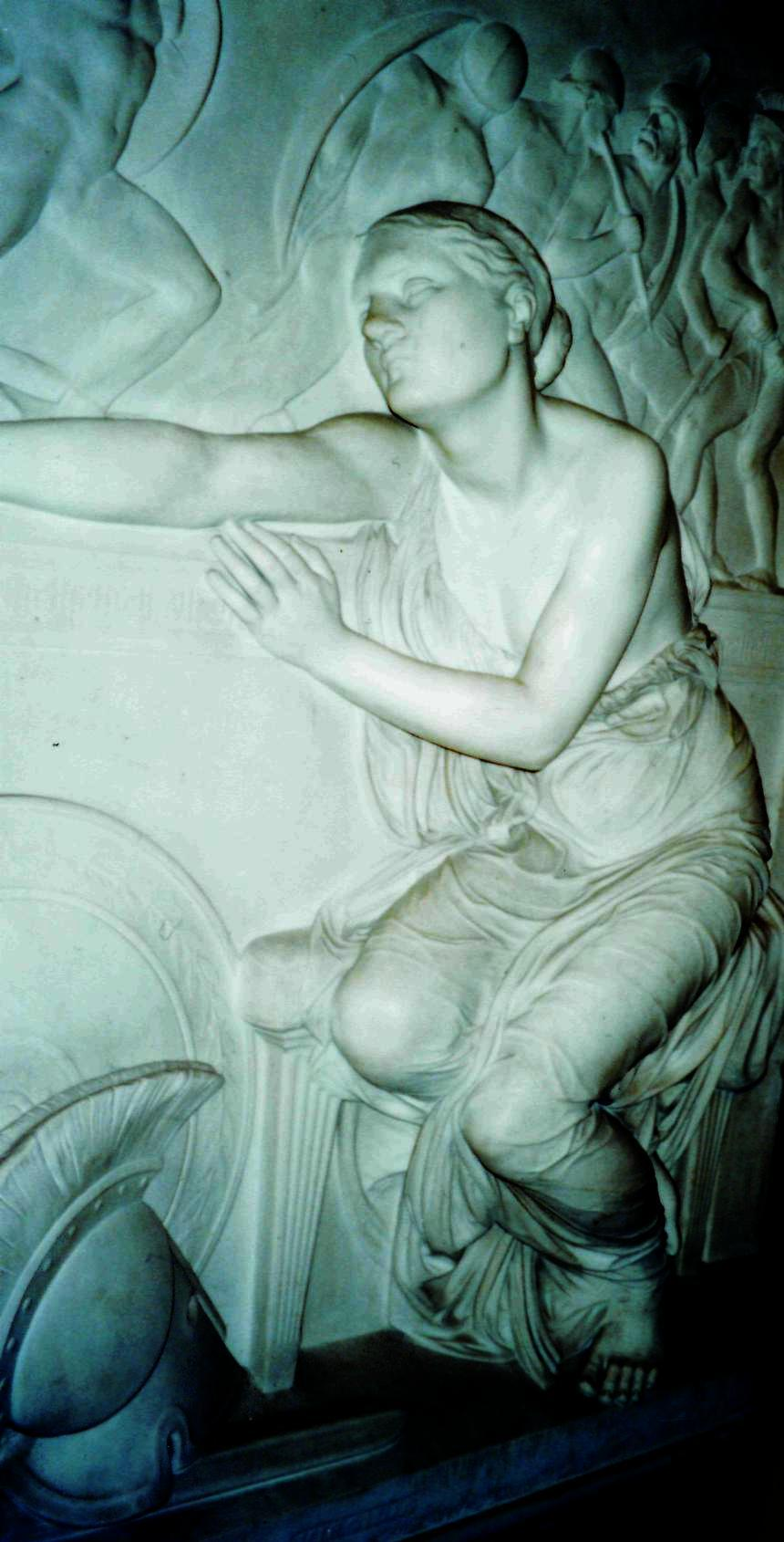 Virgilia bewailing the absence of Coriolanus. A detail of Thomas Woolner's statue 'Virgilia'.